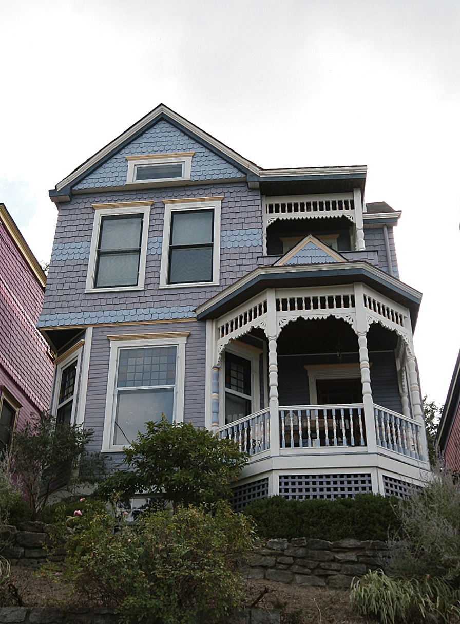 Norwell Residence in Cincinnati, OH. Photo by Greg Hume